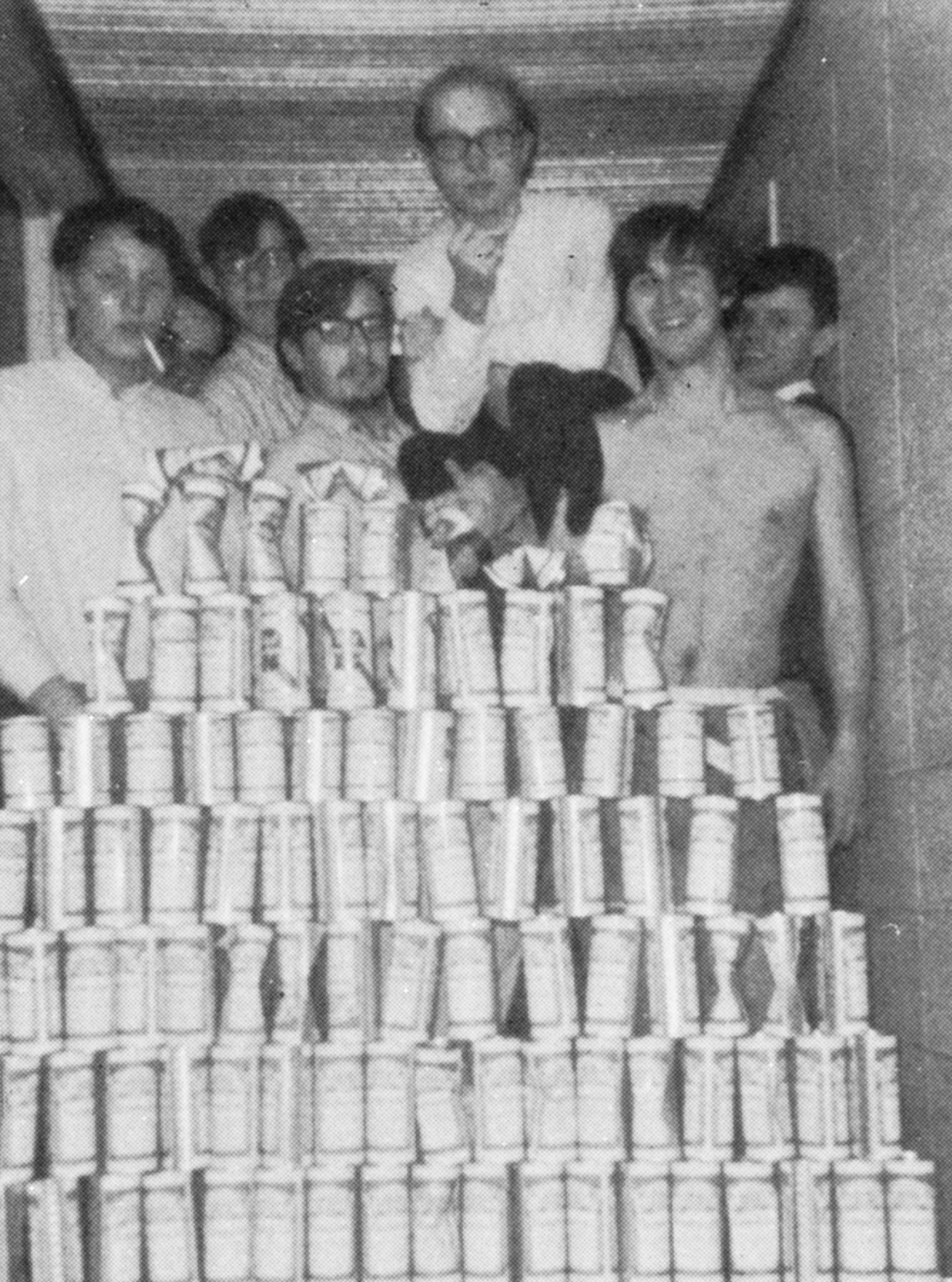 Male students pose behind a beer-can pyramid at Shimer College, 1967. Published in the Recondite yearbook, which was published without a copyright notice.